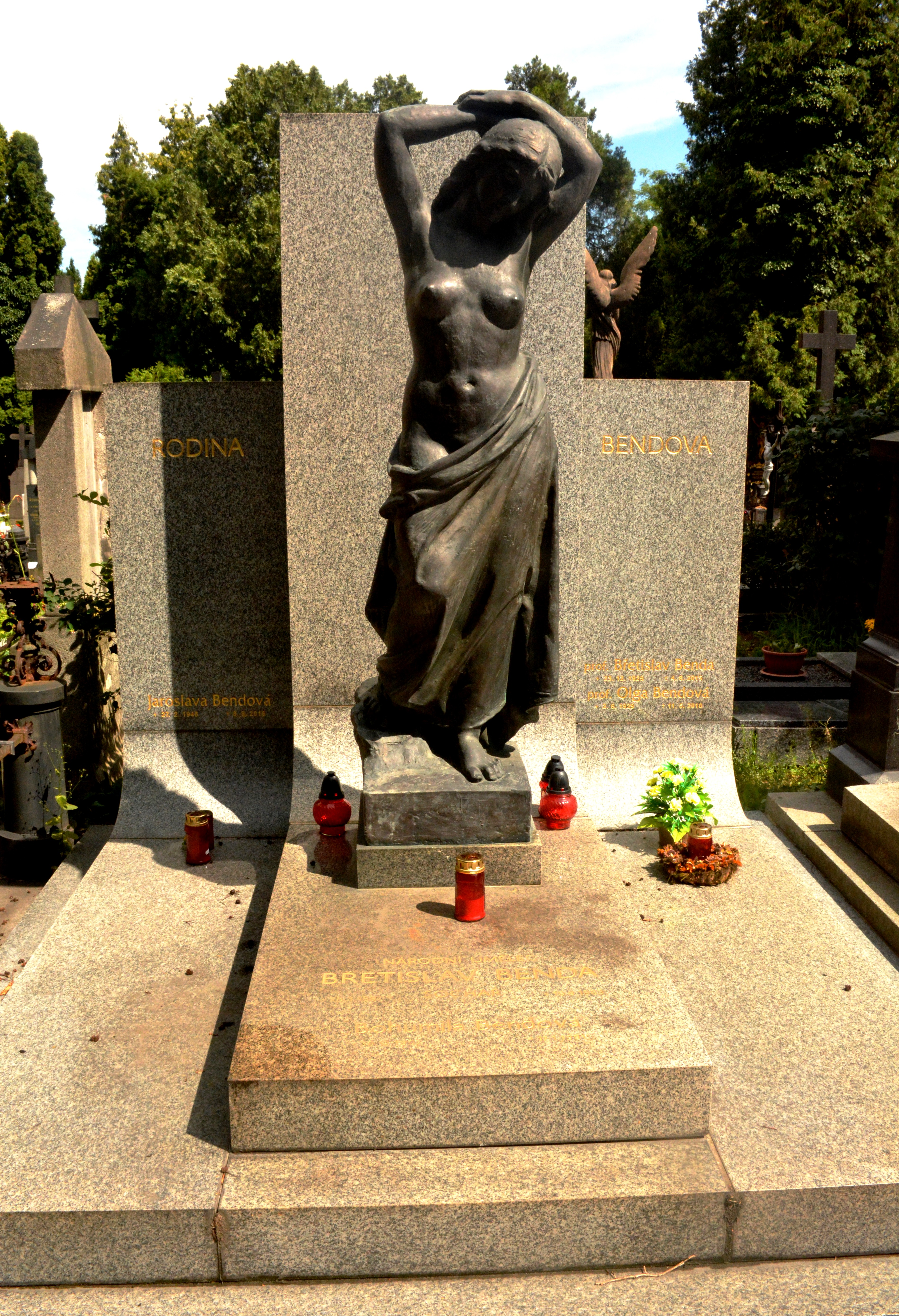 Grave of Břetislav Benda, Czech sculptor, at Vyšehrad Cemetery in Prague